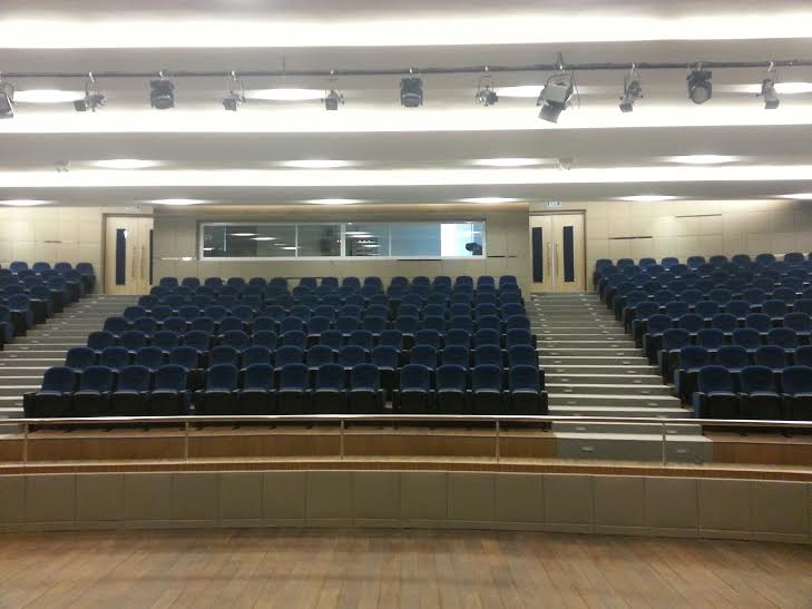 North Jakarta International school